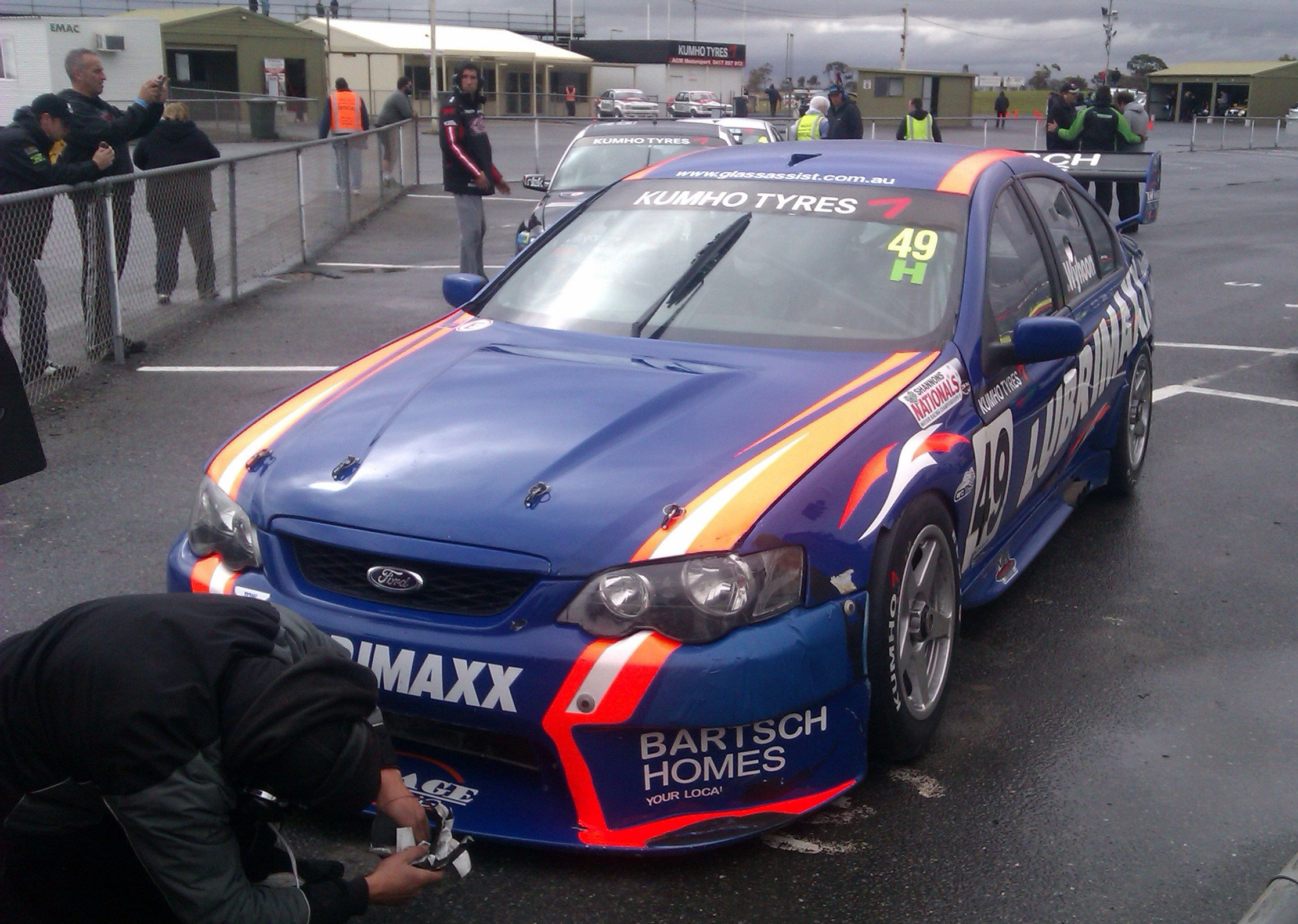 The Ford BF Falcon of Terry Wyhoon at Mallala Motor Sport Park on 21 April 2013. The car was competing in the Round 2 of the 2013 Kumho Tyres V8 Touring Car Series